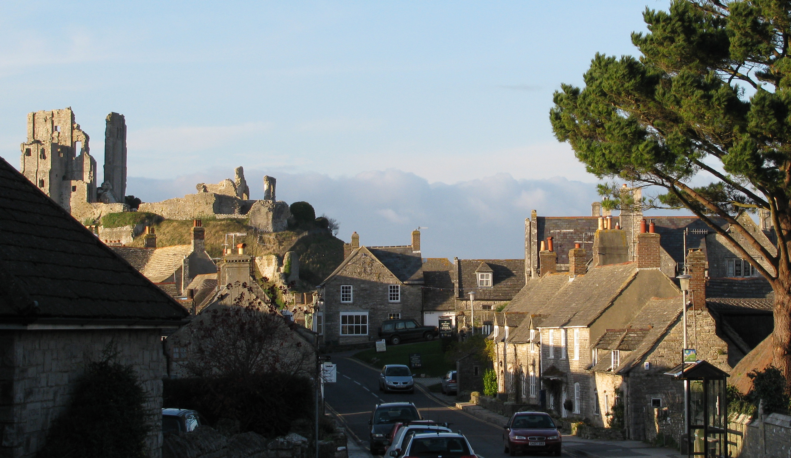 Corfe Castle village